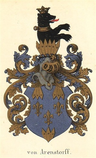 Coat of arms of the Arenstorff family